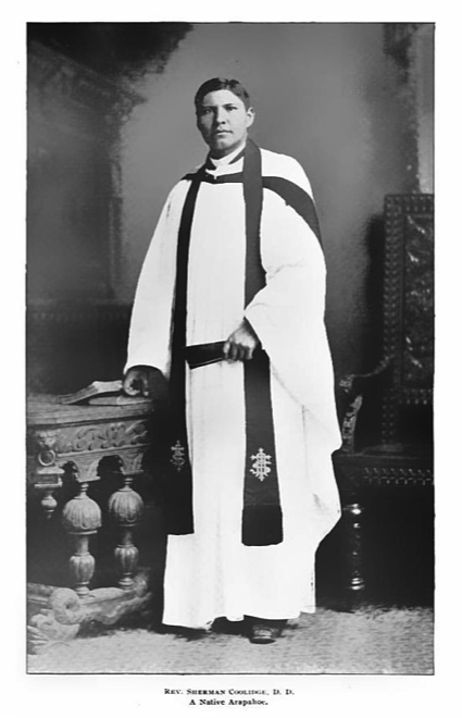 Rev. Sherman Coolidge, D.D. A Native Arapahoe. Other information No.